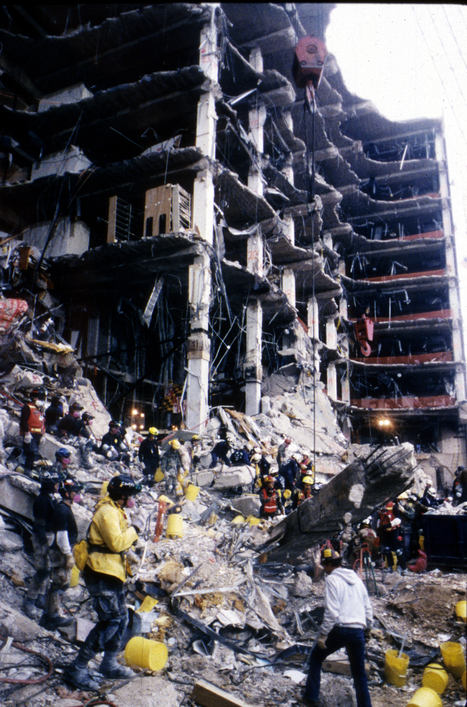 Oklahoma City, OK, April 26, 1995 -- Search and Rescue crews work to save those trapped beneath the debris, following the Oklahoma City bombing. FEMA News Photo